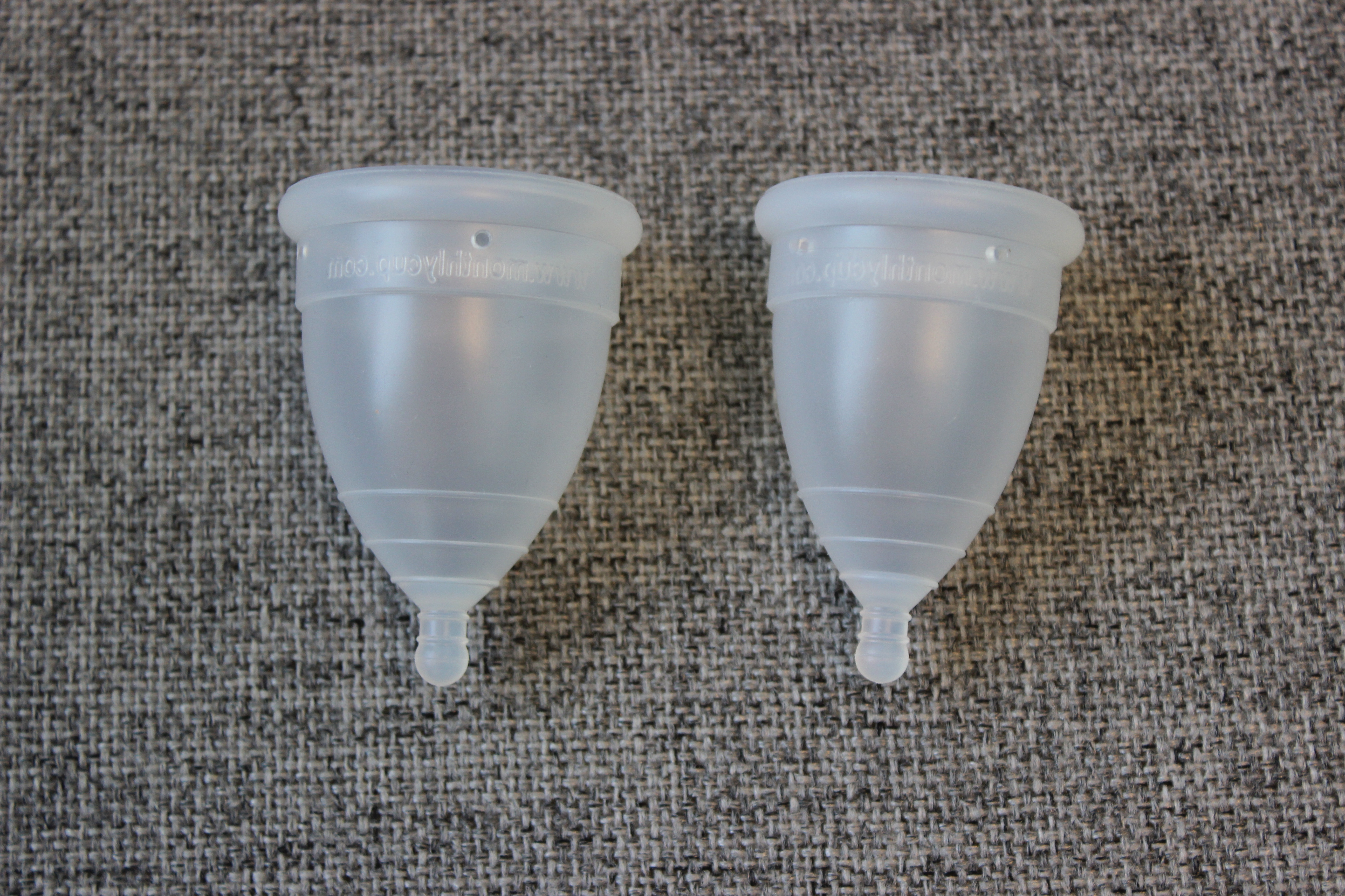 The menstrual cup Monthly Cup in size 1 & 2